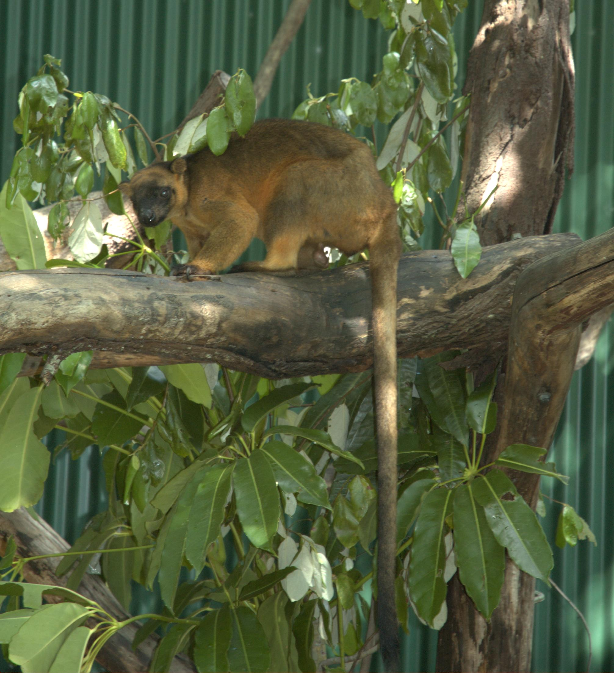 Tree kangaroo on a branch in Port Douglas, Queensland Zoo. Shot in December 2005. Original in Nikon's "raw" format is available under a different license.